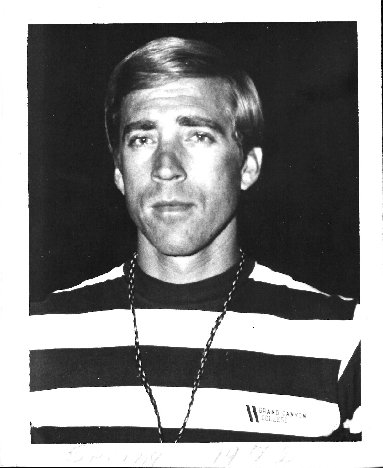 Picture of Grand Canyon College Head Coach, Ben Lindsey, in 1972